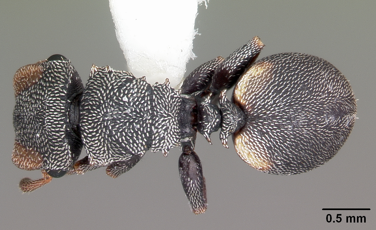 Dorsal view of ant Cephalotes texanus specimen casent0104842.